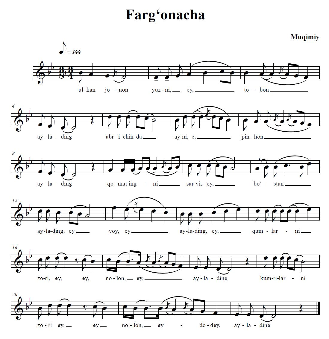 Fargʻonacha, an Uzbek tune composed and written by Muqimiy (1850-1903)